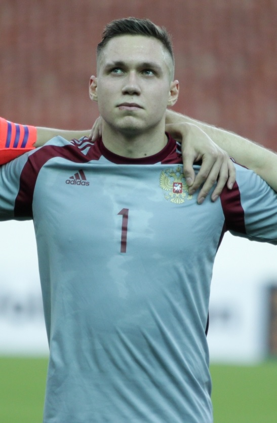 Mikhail Borodko playing for Russia U-21 against Estonia U-21 on 21 January 2016.